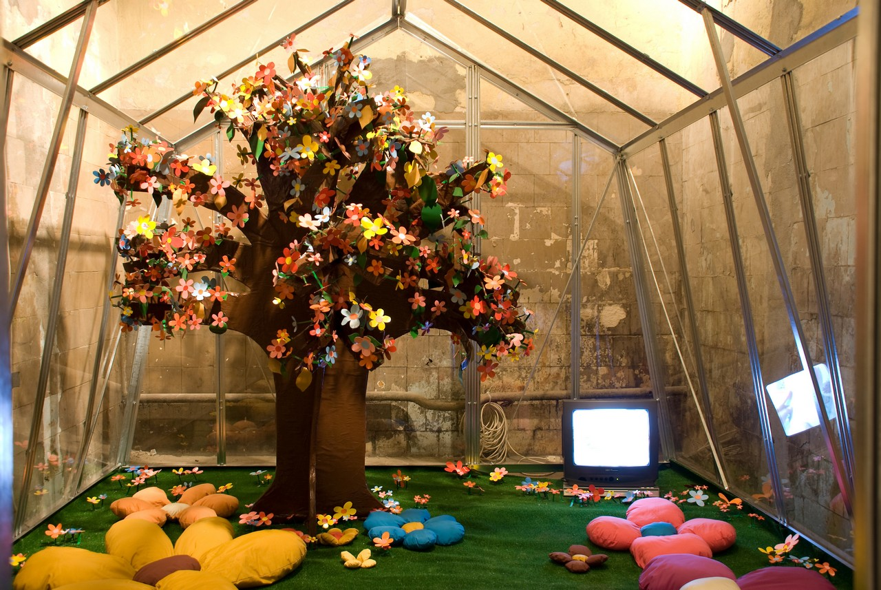 Kinga Dunikowska, Magic Garden, 2001